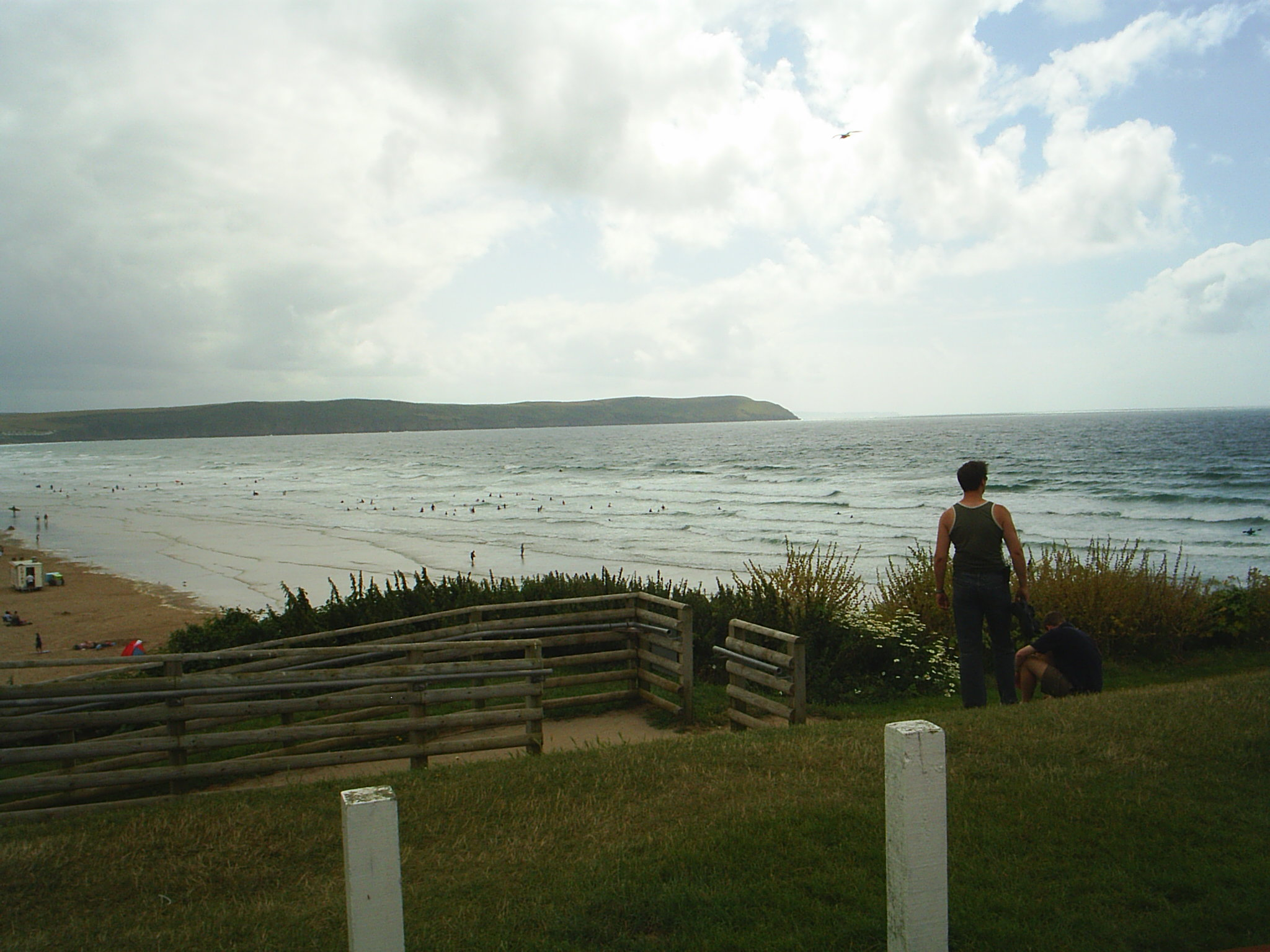 Woolacombe beach, as seen from the main car park.